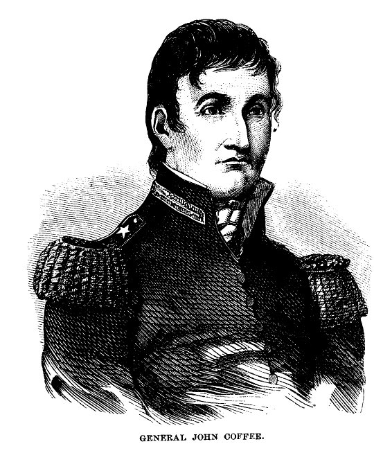 Portrait of John R. Coffee from Harpers Magazine, Vol 28, War with the Creek Indians, page 606, date of publication, 1864